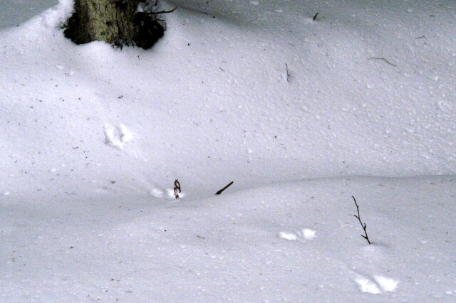 Martes martes tracks on snow, from Commanster, Belgian High Ardennes (50°15'20``N,5°59'58``E)